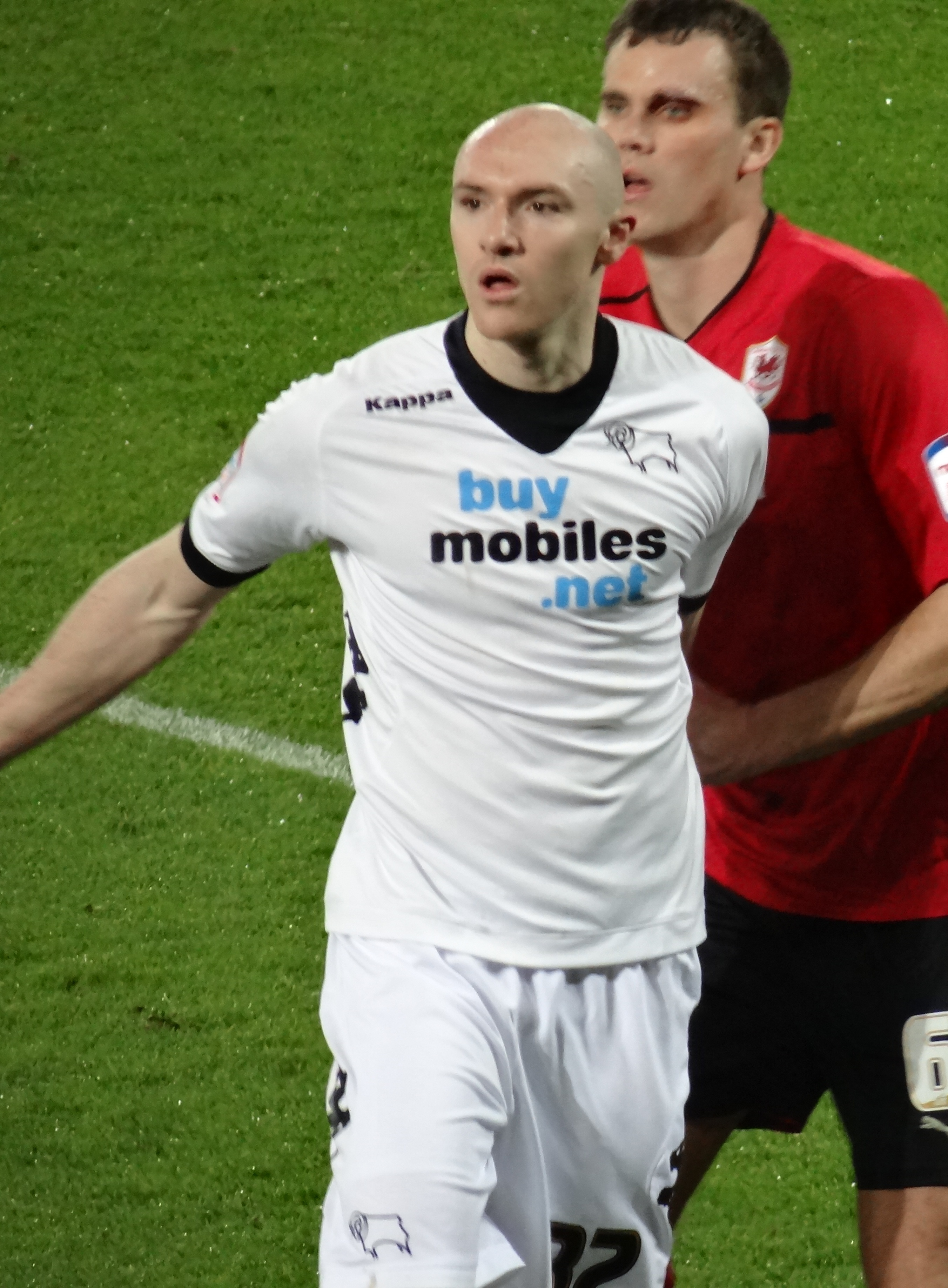 Footballer Conor Sammon playing for Derby County.